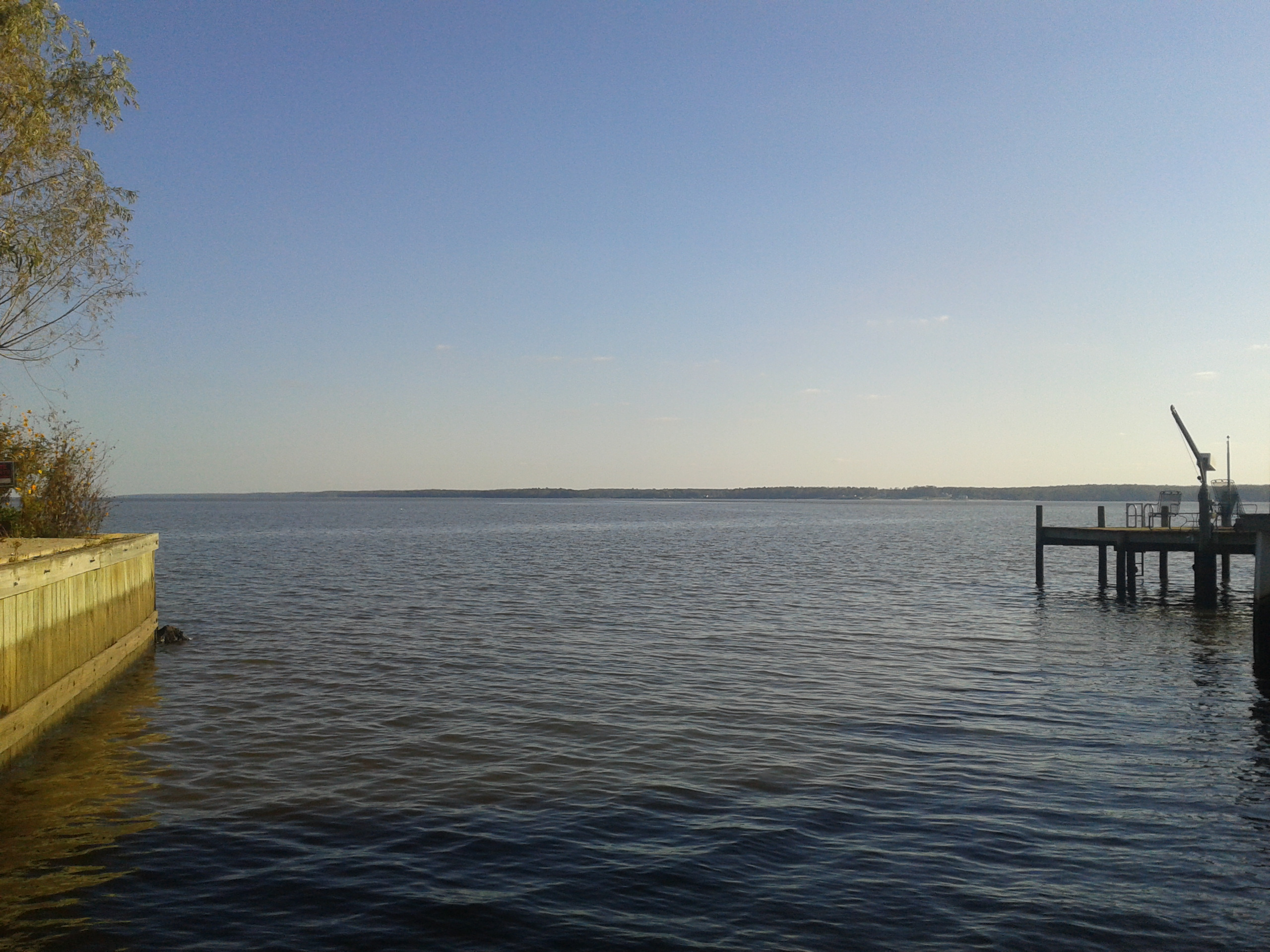 West Point, Virginia. Taken by me in October, 2016